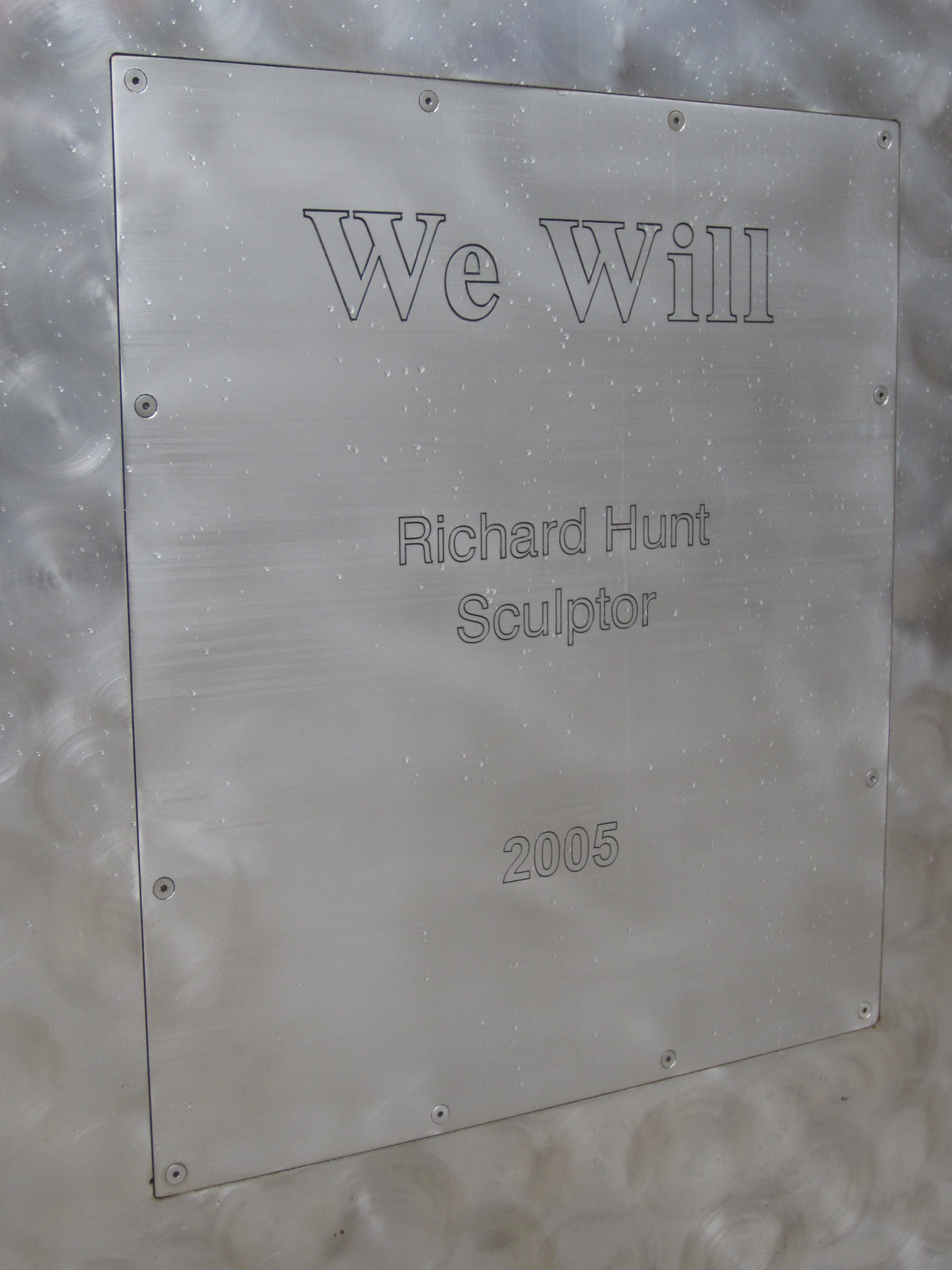 Chicago, Illinois, June 2015